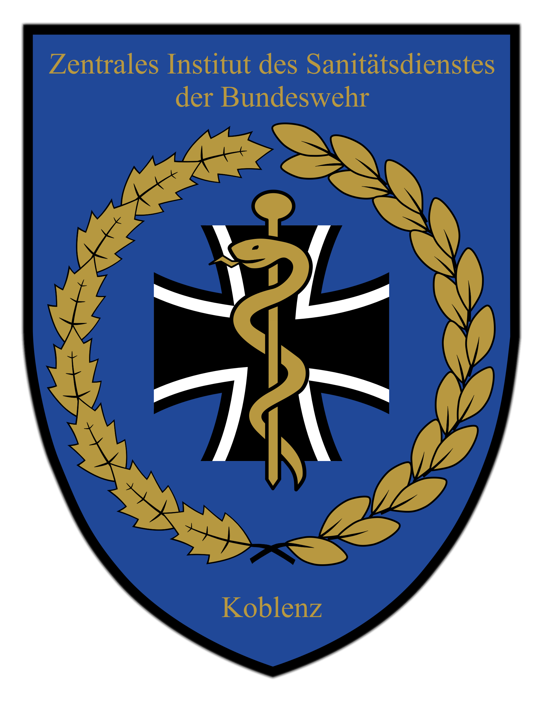 Internal coat of arms of the Bundeswehr (Armed Forces of the Federal Republic of Germany). → Remarks on naming and categorization scheme